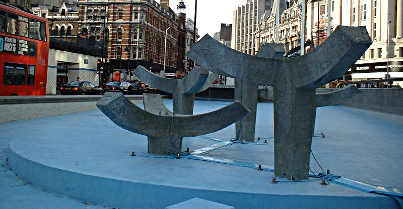 Centrepoint fountain taken by C Ford, March 04.